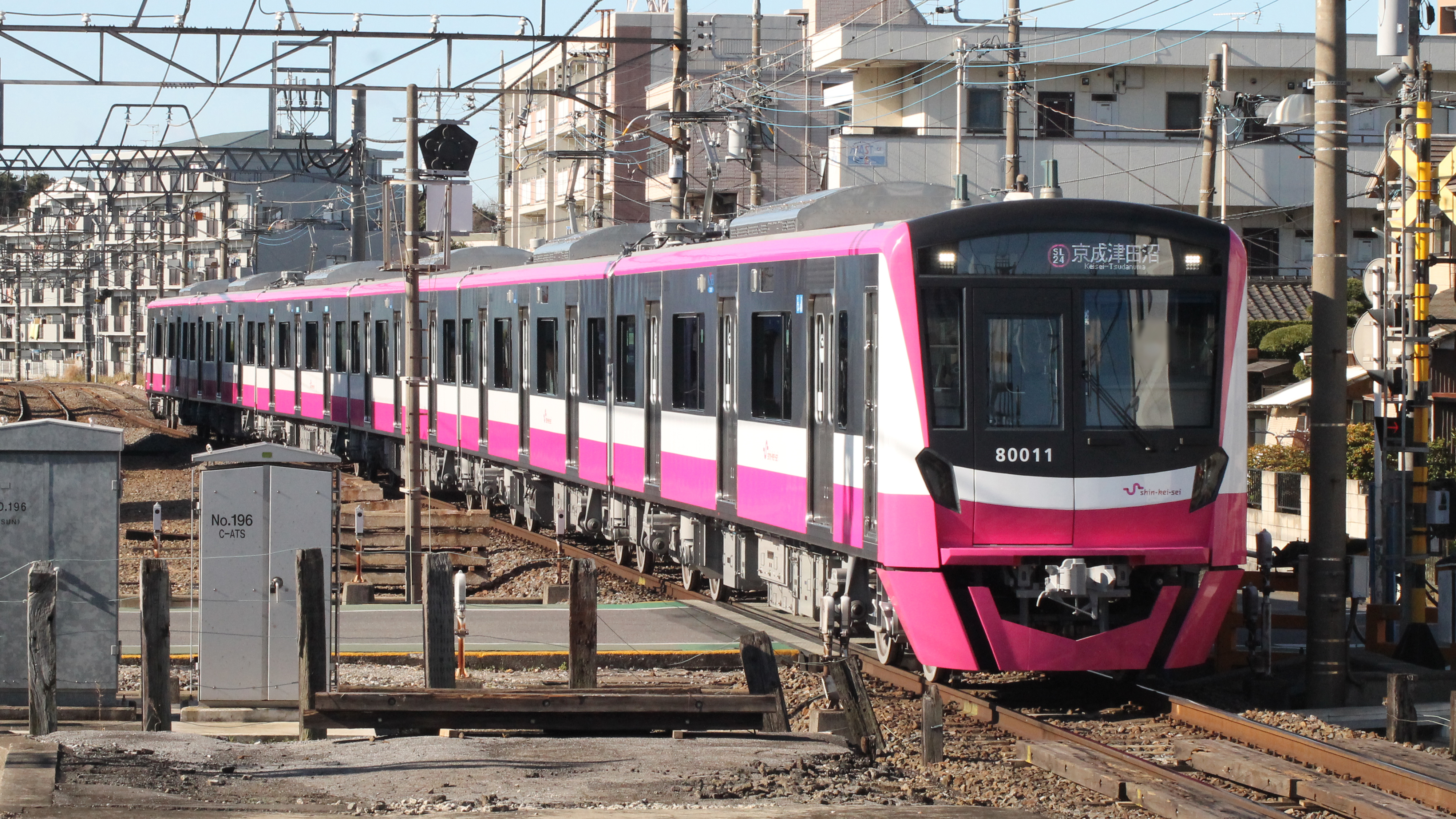 Shin-Keisei 80000 series 6-car EMU set 80016(the train's number on this pic is 80011) entering Tokiwadaira Station on the Shin-Keisei Line in Matsudo city, Chiba prefecture, Japan